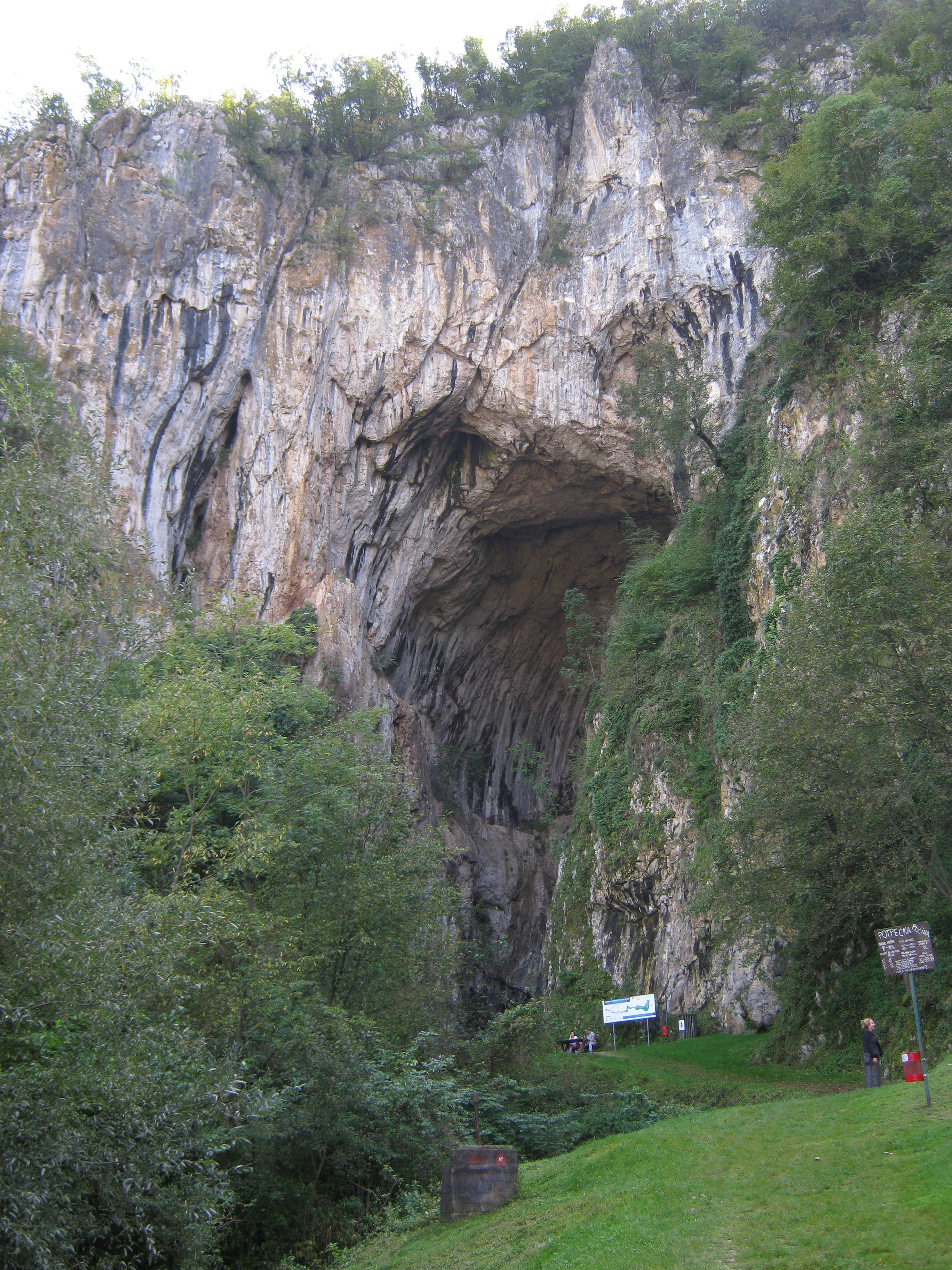 Its main entrance, 72 m tall, is the largest of all caves on the Balkans. Apart from the main, upper entrance for tourists, there is a smaller, lower entrance into an underground lake, which overflows in rainy seasons, creating an intermittent water flow called Petnica, flowing into Đetinja river. The upper hall has lightened tourist trail, 555 m long, reachable by a staircase of over 700 stairs.